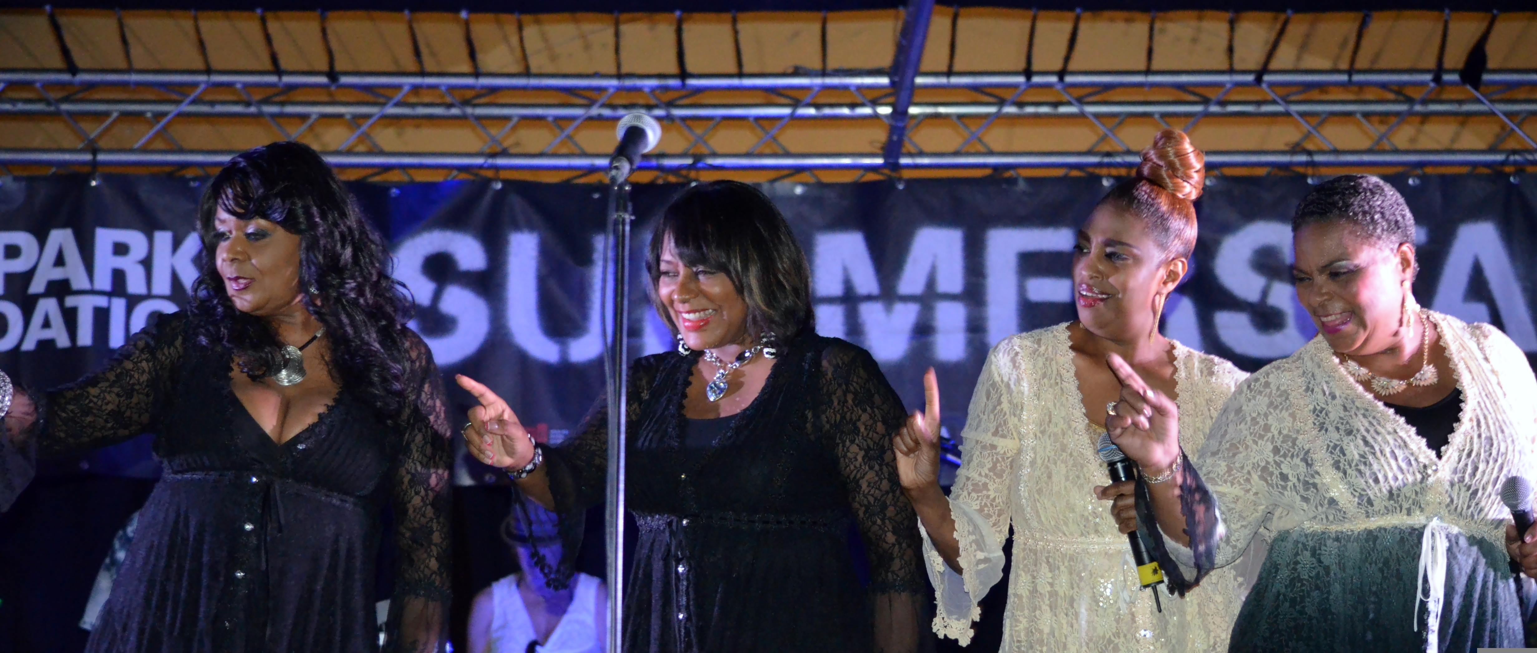 First Choice (four) by gli; Salsoul Reunion show at East River Park SummerStage Bandshell